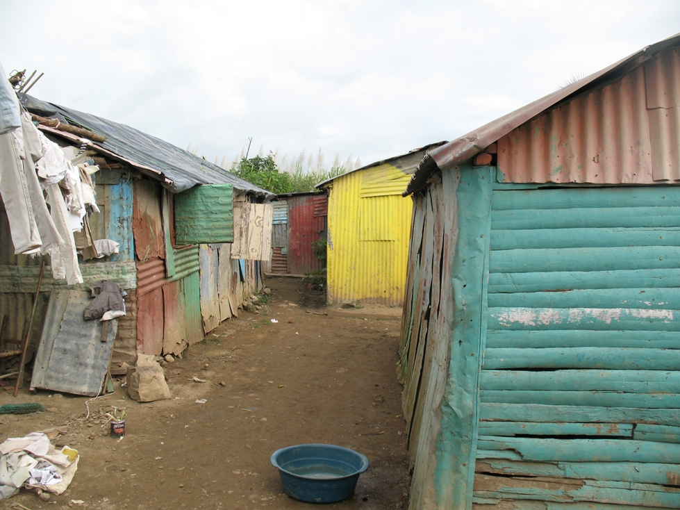 Shacks in a Haitian Batey, built with recycled materials